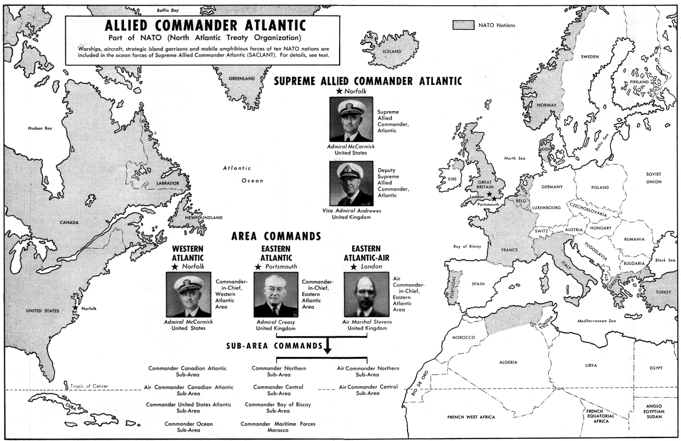 1952 organizational chart of the North Atlantic Treaty Organization (NATO), Allied Commander, Atlantic.